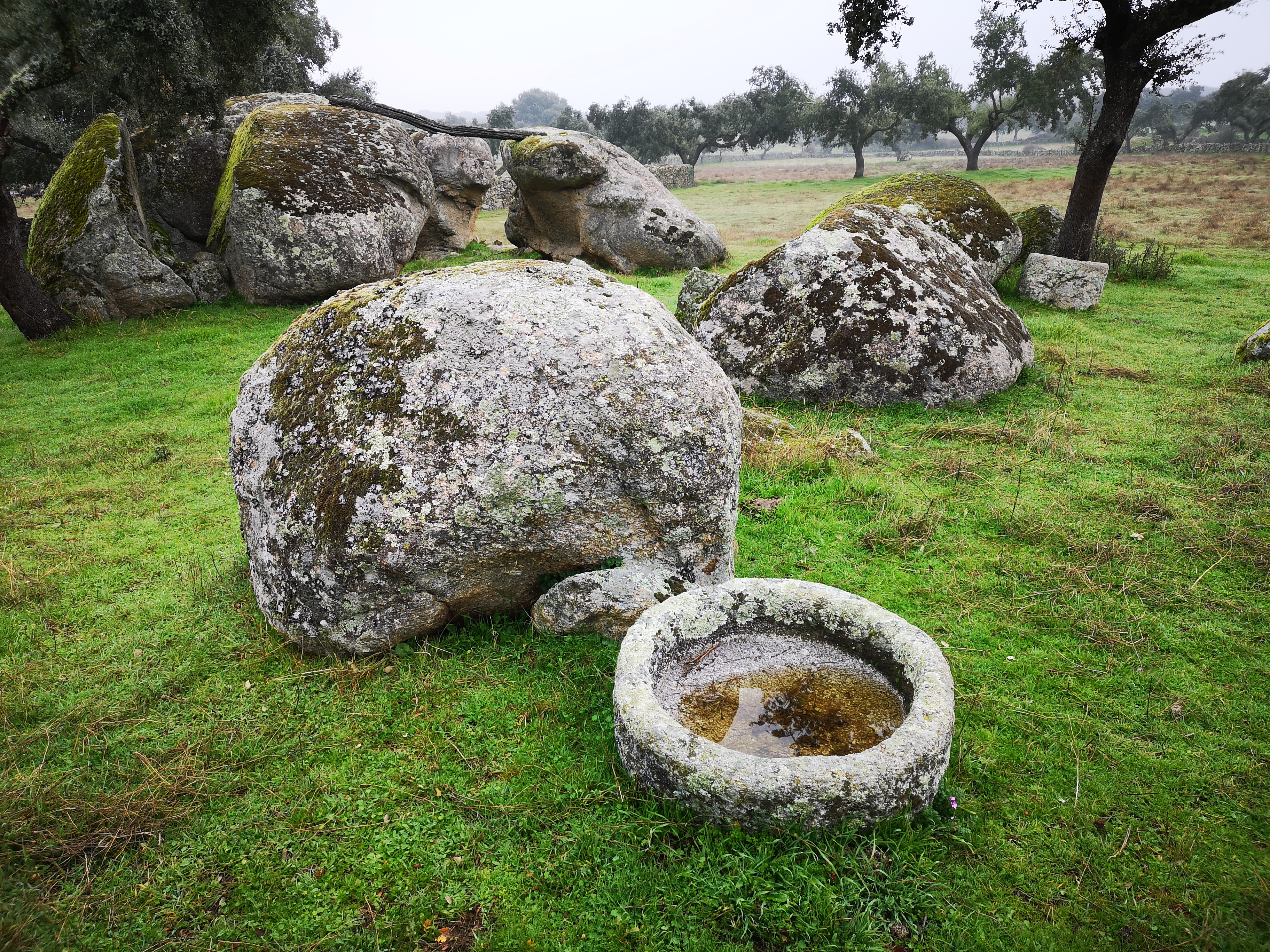 Canchales